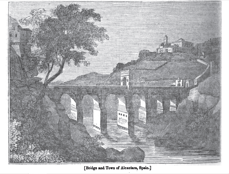 Alcanta bridge engraving published in The Penny Magazine.